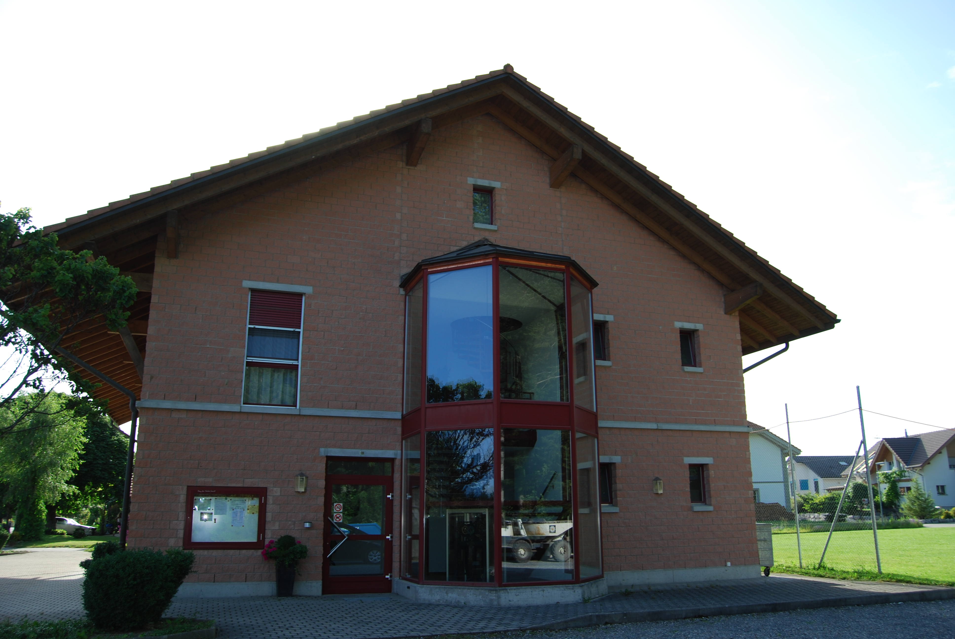 Gurbrü, canton of Bern, SwitzerlandEsperanto: Gurbrü, Kantono Berno, Svislando